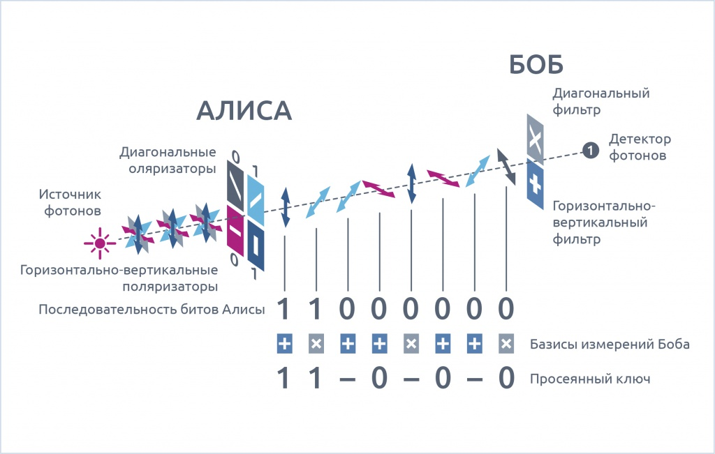 показывает выбор и соответствие базисов у Алисы и Боба